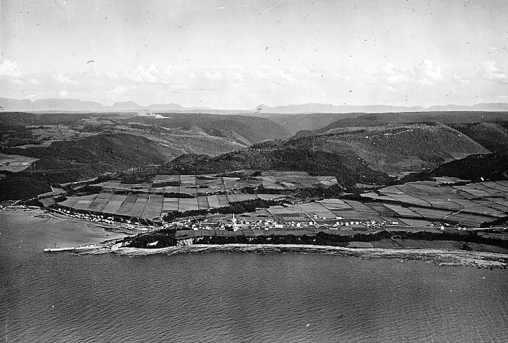 Photograph, glass lantern slide, Grand Méchin, QC, about 1930, Anonymous, Silver salts on glass - Gelatin dry plate process - 8 x 10 cm